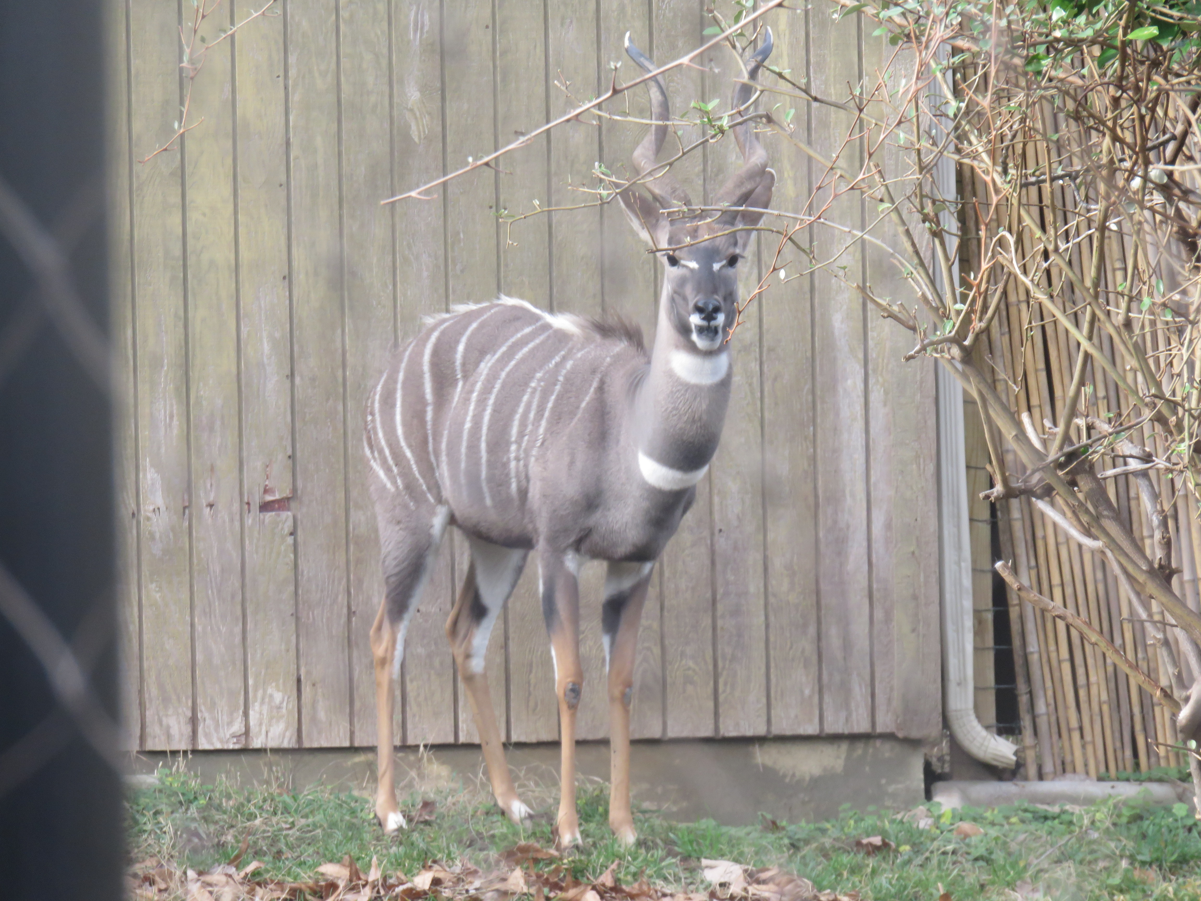 Lesser Kudu at the National zoo